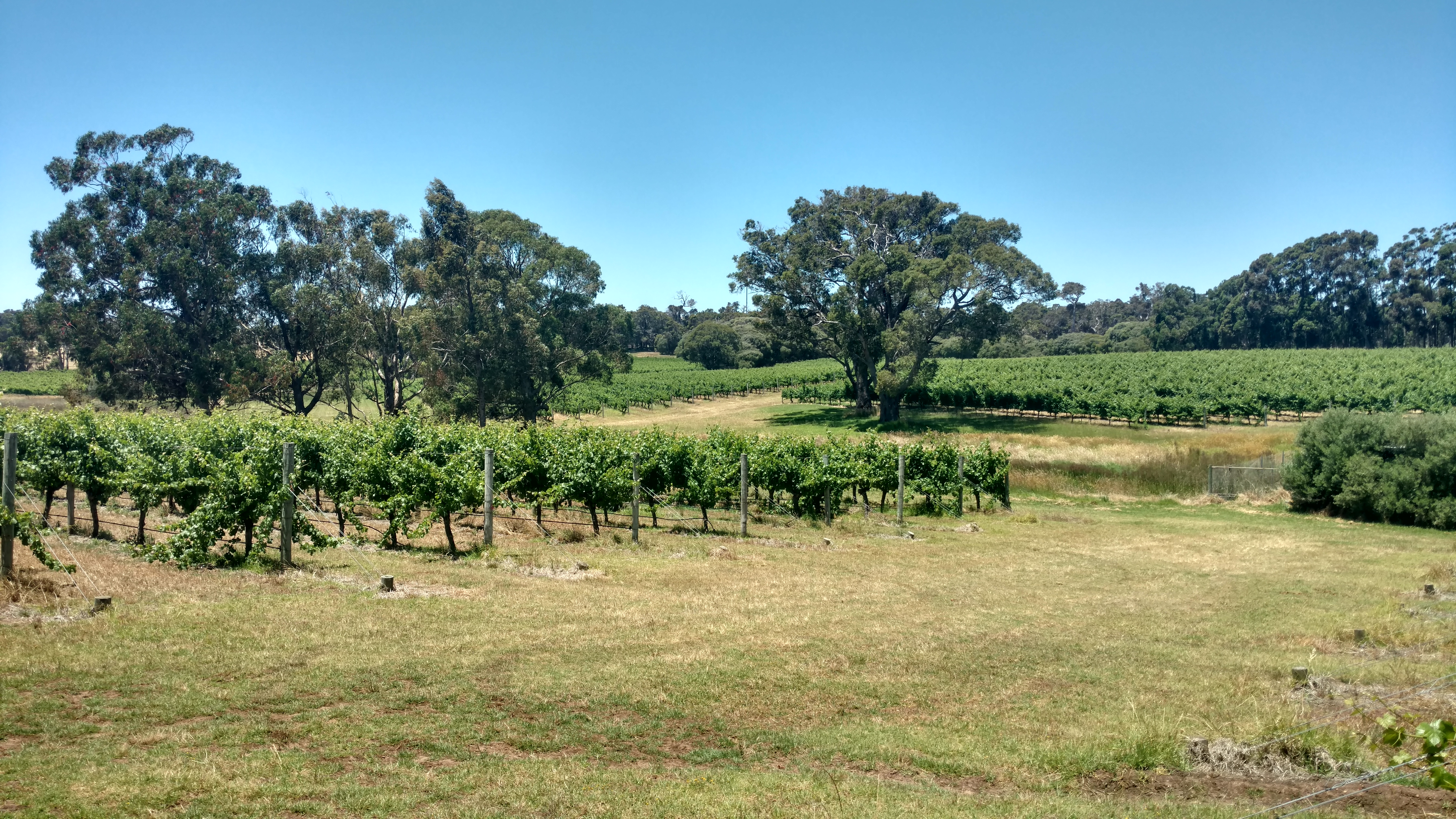 2016 Margaret River Australia. Hay shed hill winery